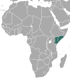 MacArthur's Shrew (Crocidura macarthuri) range